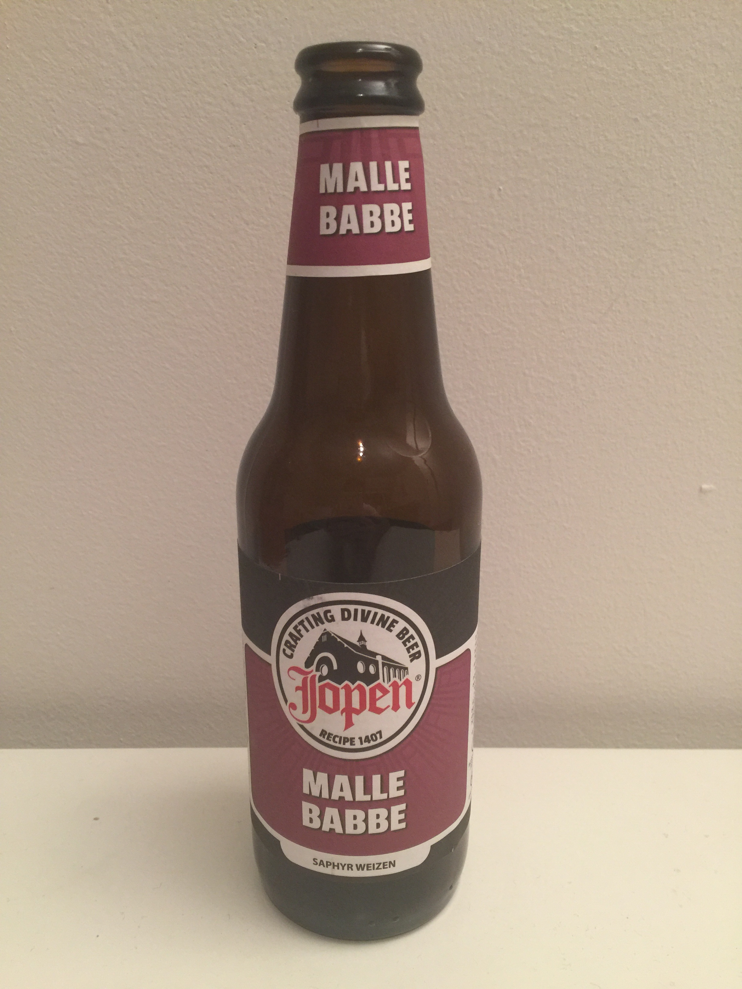 Bottle of Jopen's Malle Babbe beer